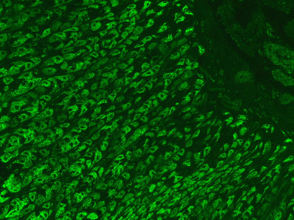 Immunofluorescence pattern of gastric parietal cell antibodies. Produced using serum from a patient with pernicious anaemia on a stomach section with a FITC conjugate